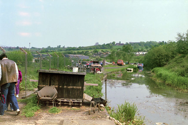 End of truncated Dudley Canal near Hawne Basin, 1987, looking back from the very effective bar to further navigation, a steel bridge with one end dropped into the canal. Originally this No 2 Line of the Dudley Canal continued another 5 miles through Lapal Tunnel to connect with the Worcester and Birmingham Canal, but the tunnel was closed by persistent mining subsidence.